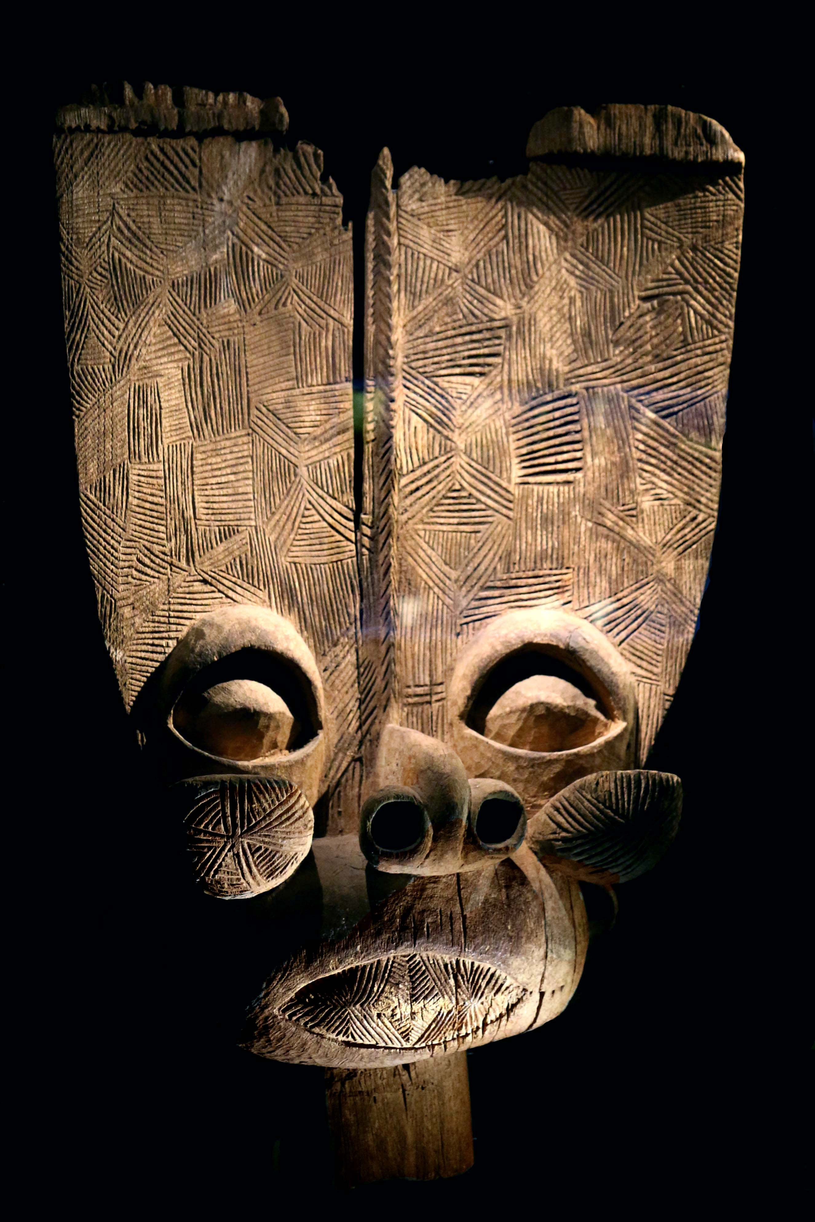 Mask called batcham. Bamiléké people. Wood, H. 98 cm. Cameroon. 1850-1950. Musée des arts africains, océaniens et amérindiens. Vieille Charité. Marseille.